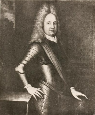 A portrait of colonial entrepreneur and first governor of Nova Scotia Samuel Vetch (1668-1732).